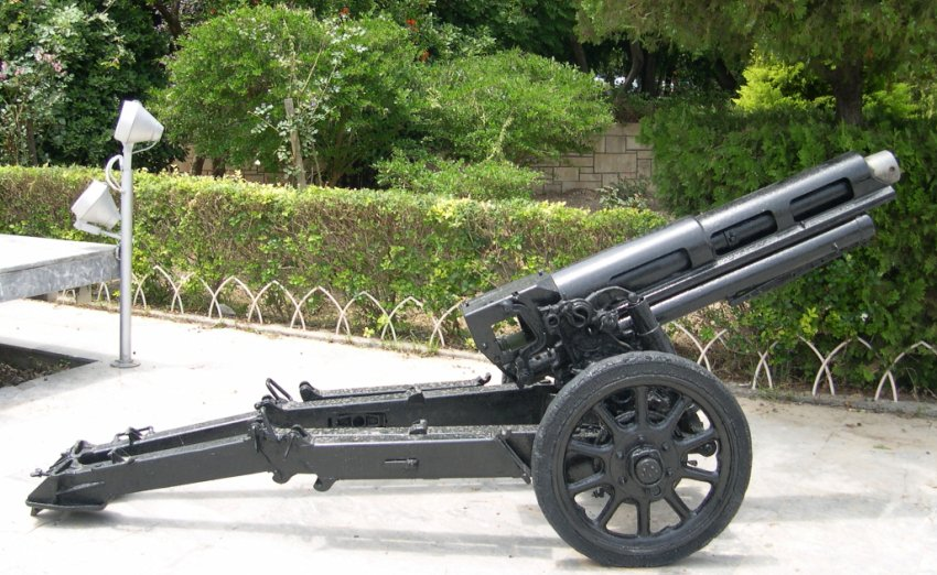 One of the two Obice da 75/18 modello 34 guns at the Battle of Crete monument in Heraklion, Crete